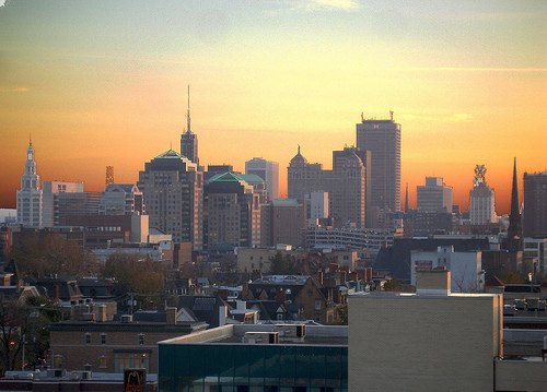 Picture of Buffalo's downtown region taken from a hotel at sunset.